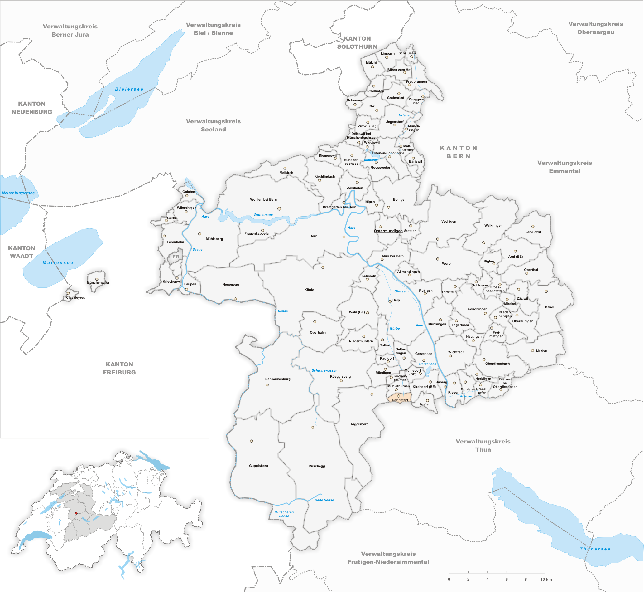 Municipality Lohnstorf